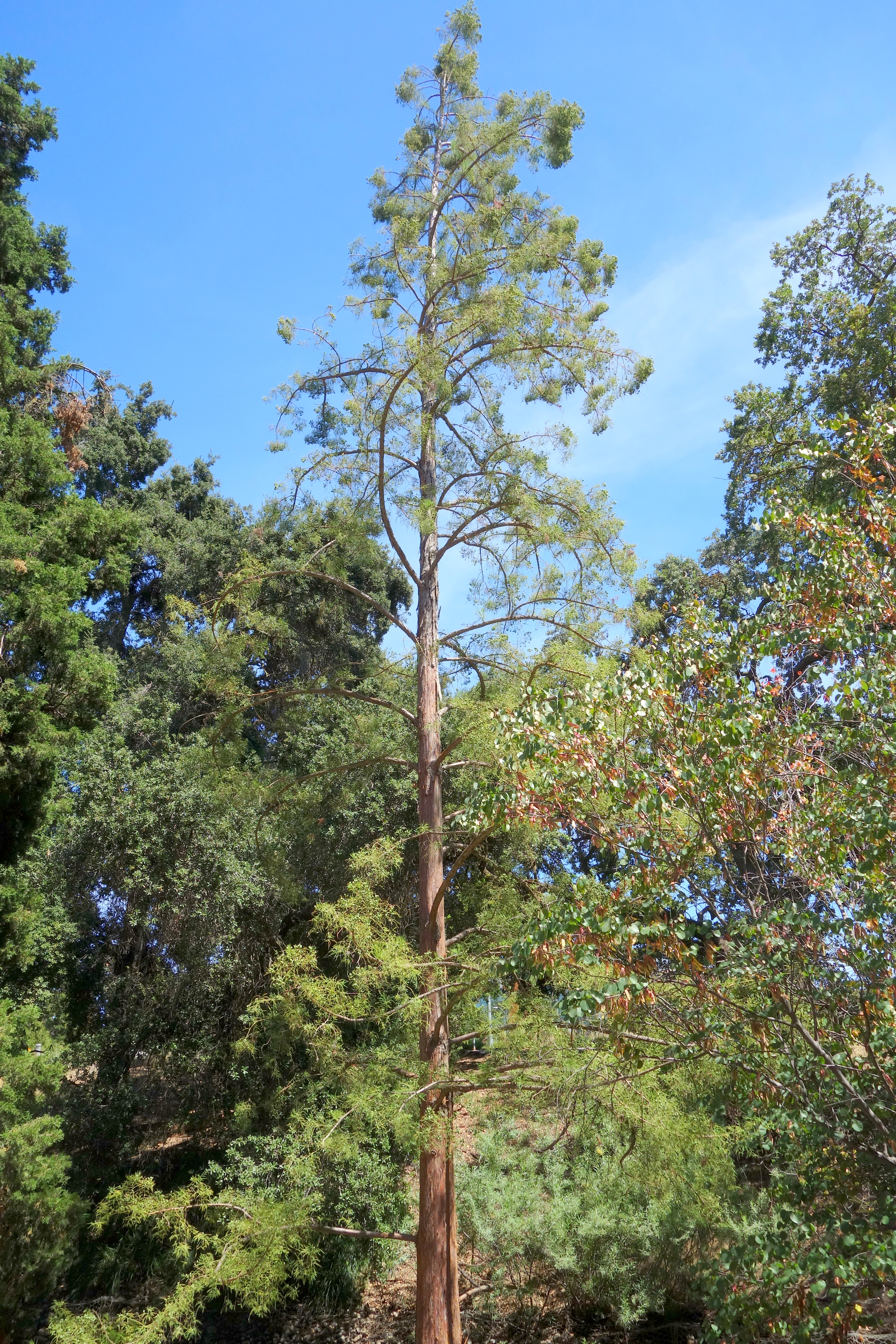 Botanical specimen in the UC Davis Arboretum - University of California, Davis - Davis, California, USA.